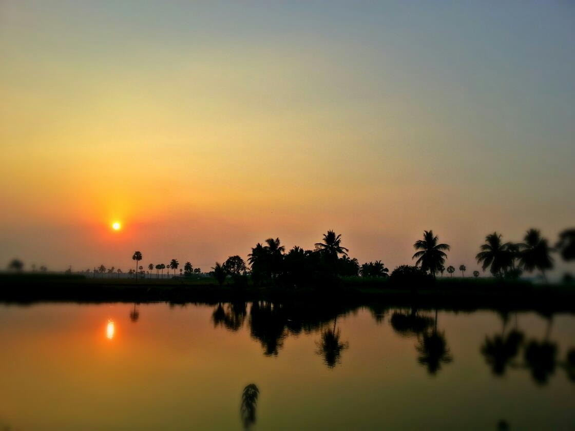 Pond Kalavalapalli 2